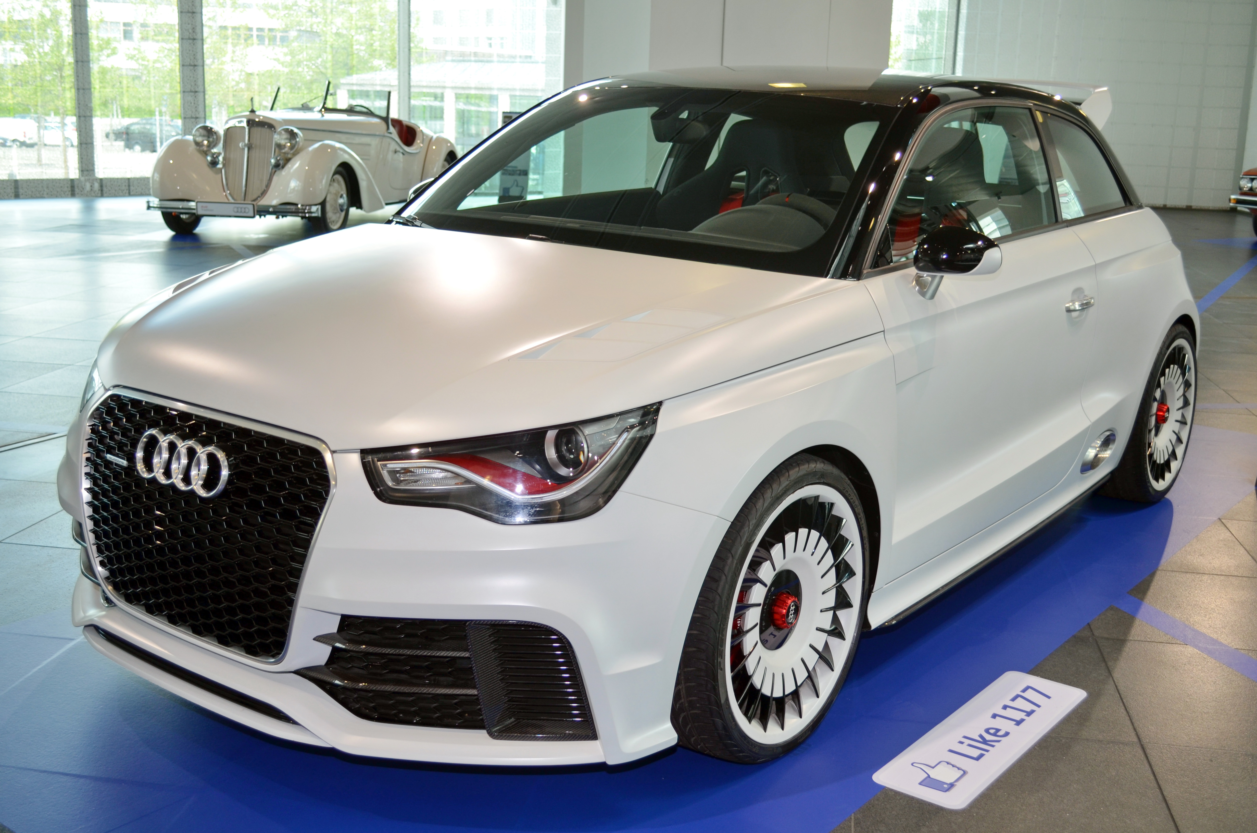 Audi A1 Quattro au Audi Museum, Ingolstadt, Bavaria, Germany.